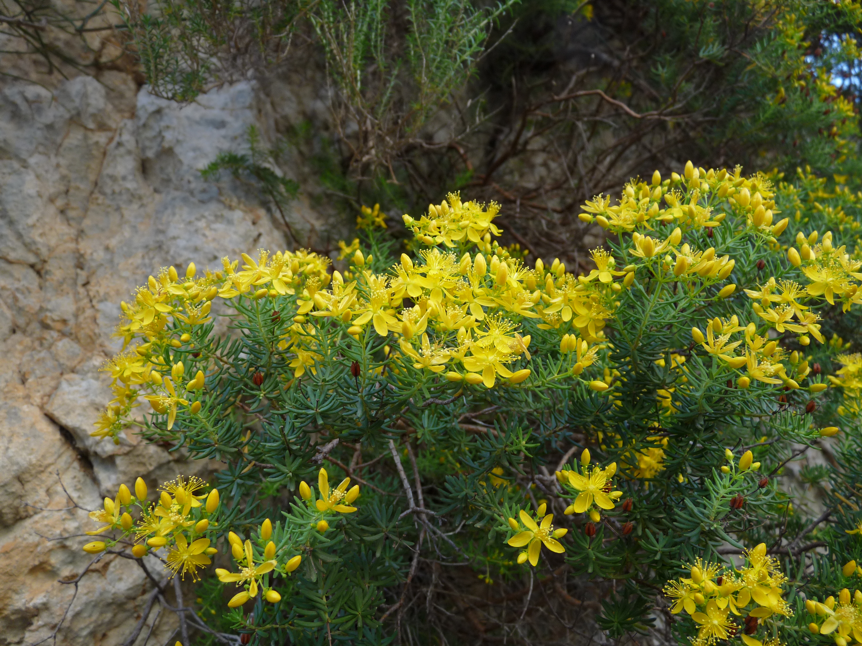 Hypericum amblycalyx Coust. & Gand.